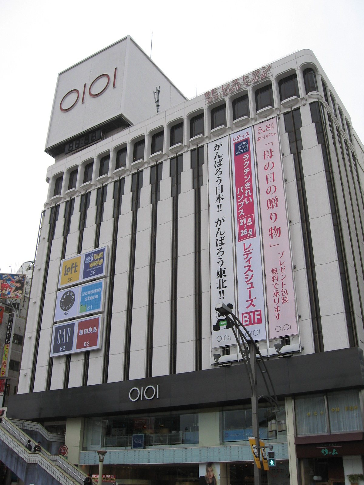 Marui "01city" Ueno